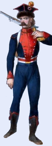 Soldier of Polish Legion in Italy 1796